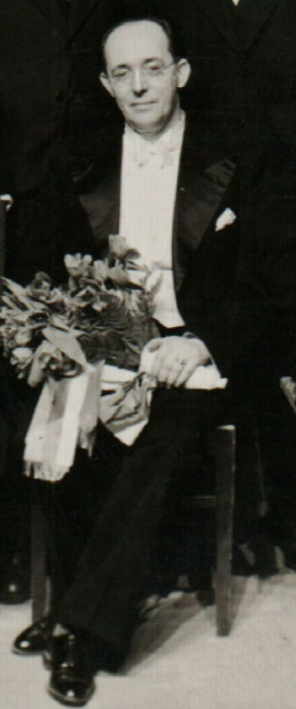 Jakov Gotovac with the National opera of Bulgaria, Sofia, 1940